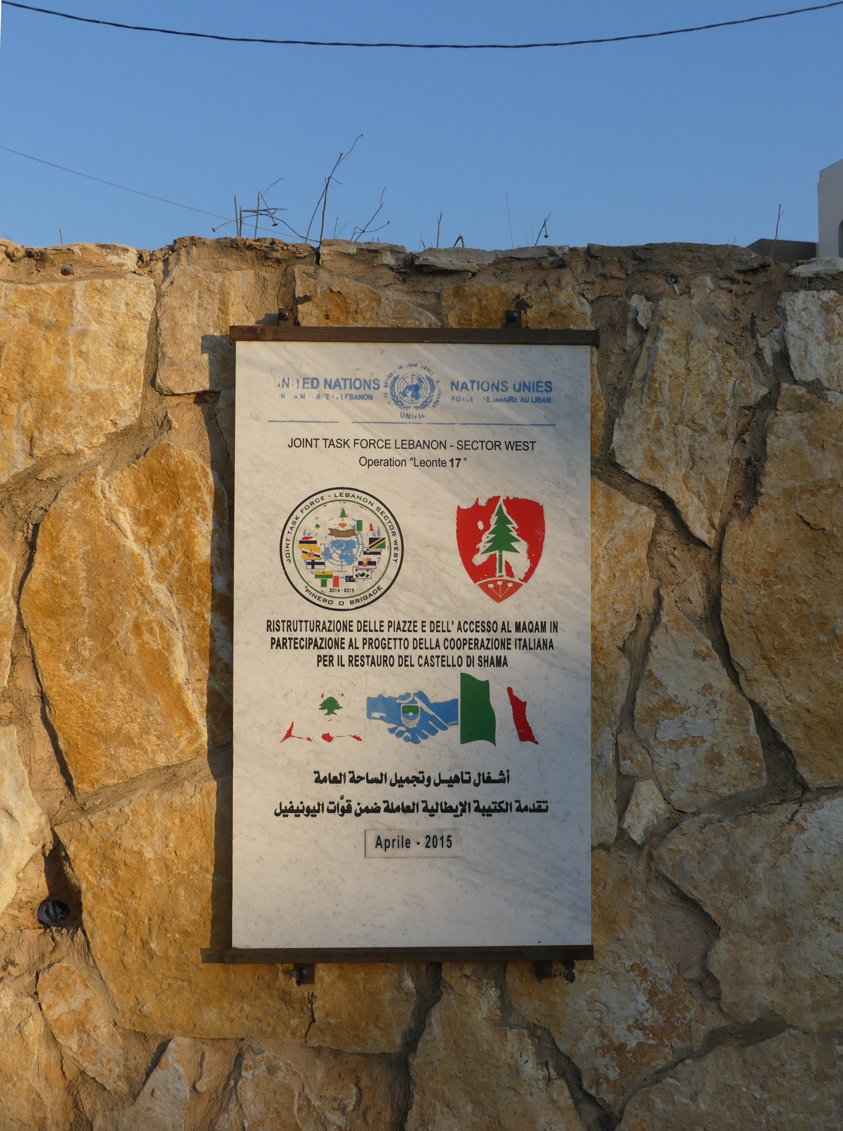 Plaque for a project by the Italian-led "Joint Task Force Lebanon - Sector West" of the United Nations Interim Force in Lebanon (UNIFIL) and by the Italian Agency for Development Cooperation to rehabilitate the main square in the Southern Lebanese village of Chamaa (also spelled Chama'a, Chama, or Shama). It provides access to the Chamaa Castle and to a shrine which is attributed by local tradition to the prophet Shamoun or Shimon al-Safa, who is said to be Saint Simon the Zealot, Simon Peter, or Simon the Cananite, one of the 12 apostles of Jesus. According to this Shia belief, he was also an ancestor to the 12th and last Shia Imam Mahdi.